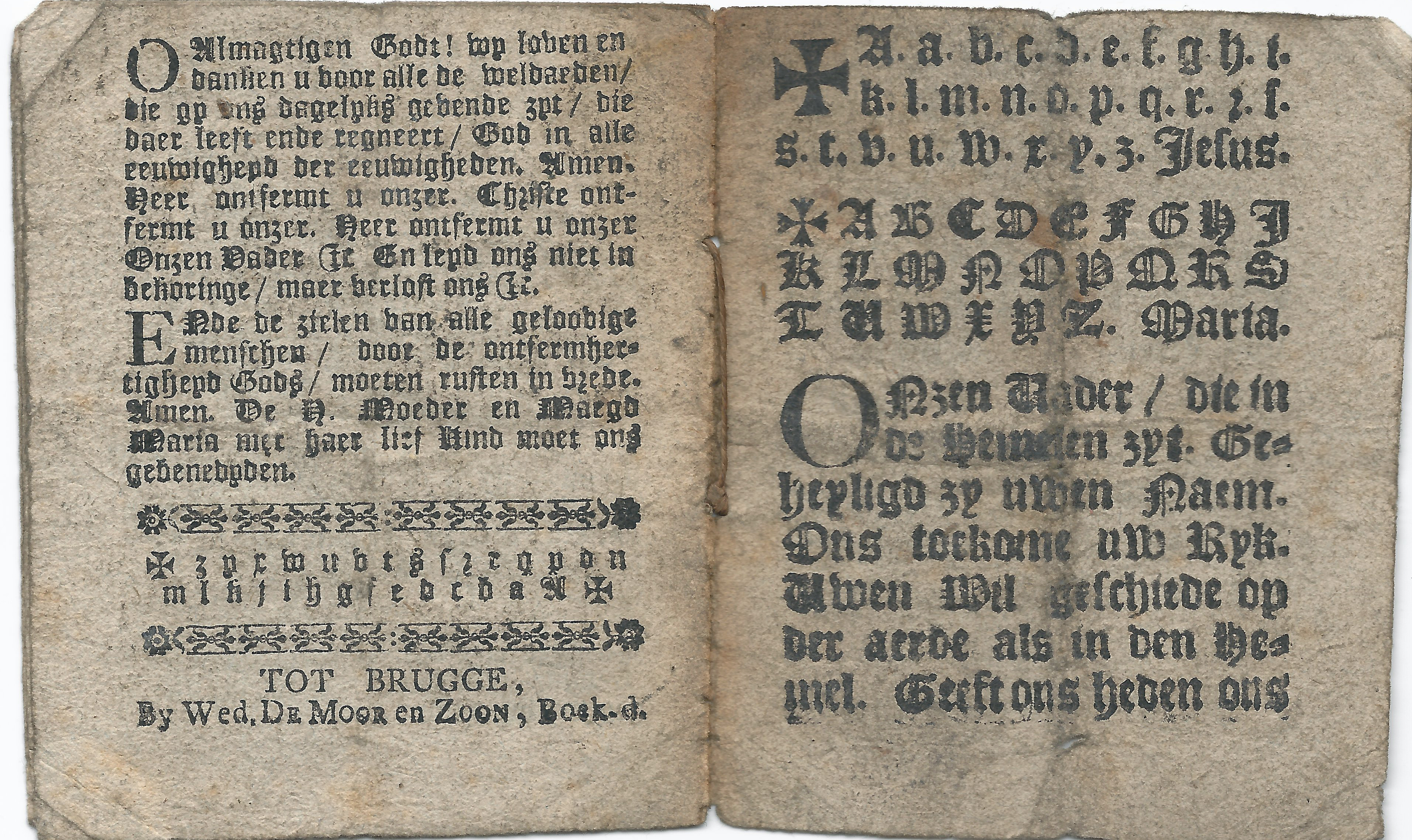 Brugge: Abecedary printed by widow De Moor, bookprinter